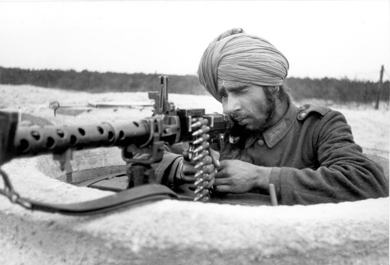 Information added by Wikimedia users.Bordeaux France (Atlantic Wall) - A Soldier of the "Free India" Legion with I. MG 34; PK 696